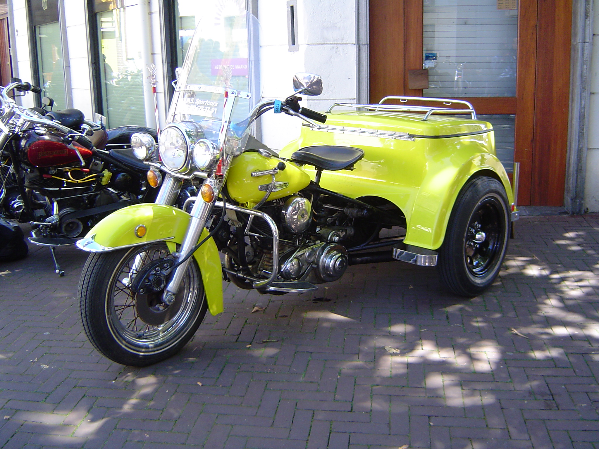 Harley-Davidson Servi Car (3-wheeled motorcycle with trunk, yellow color).